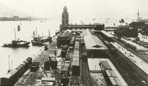 Clock Tower and Kowloon Station (KCR) in Tsim Sha Tsui, Hong Kong.